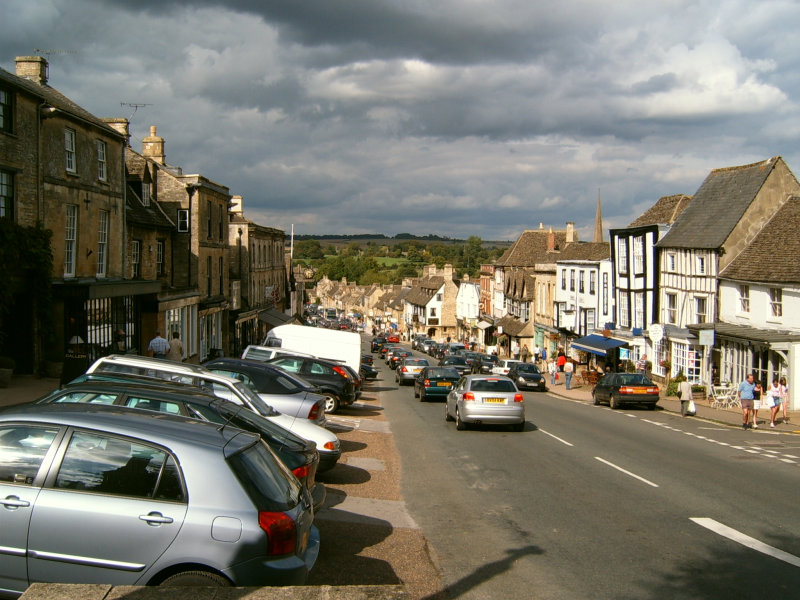 The main street of Burford in the Cotswolds, UK.